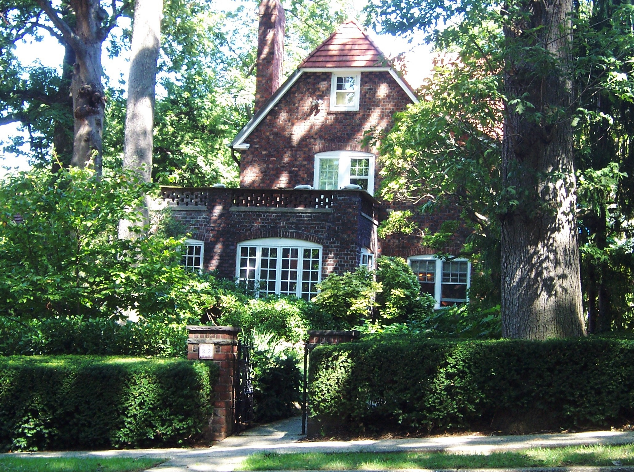 Geraldine Ferraro and her family lived in the house in Forest Hills Gardens, Queens for several decades.